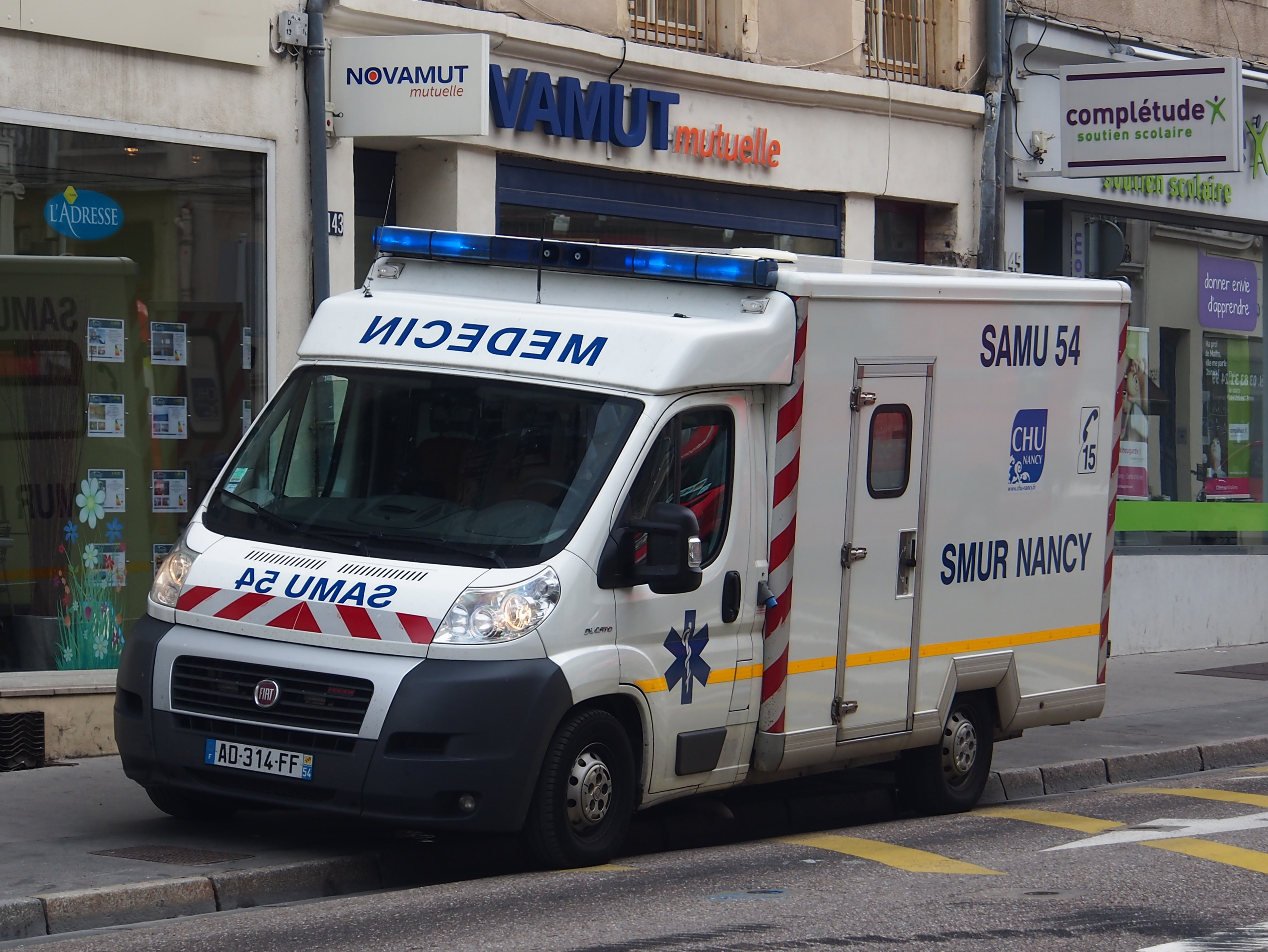 Photographed in Nancy, France.